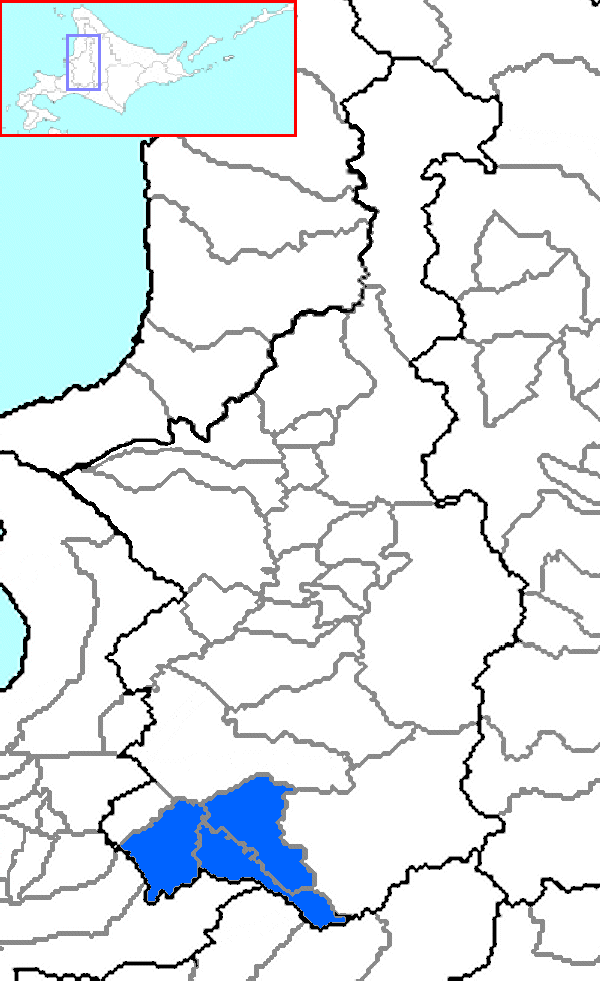 The location of Yubari District in Sorachi Subprefecture, Hokkaido Prefecture, Japan.